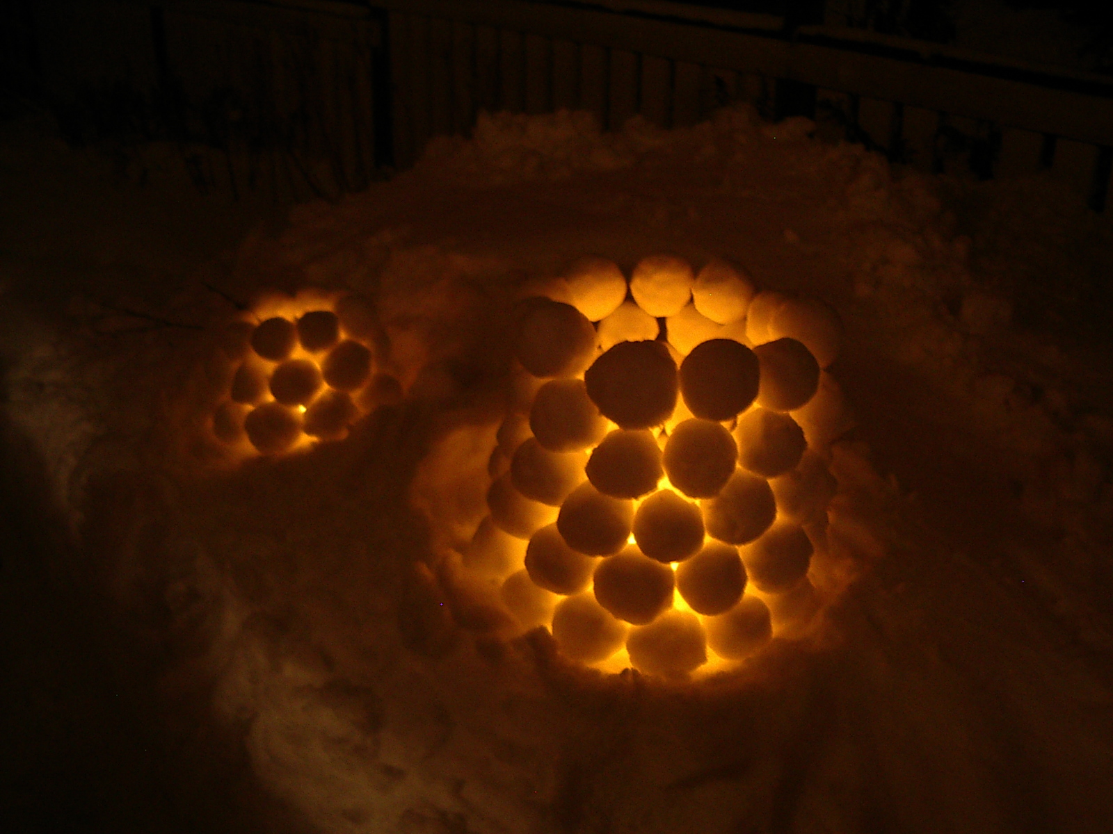 Two snow lanters (Helsinki, Finland)